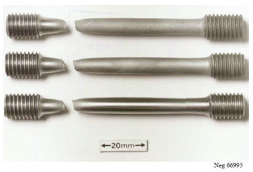 Cylindrical test specimen for tensile testing